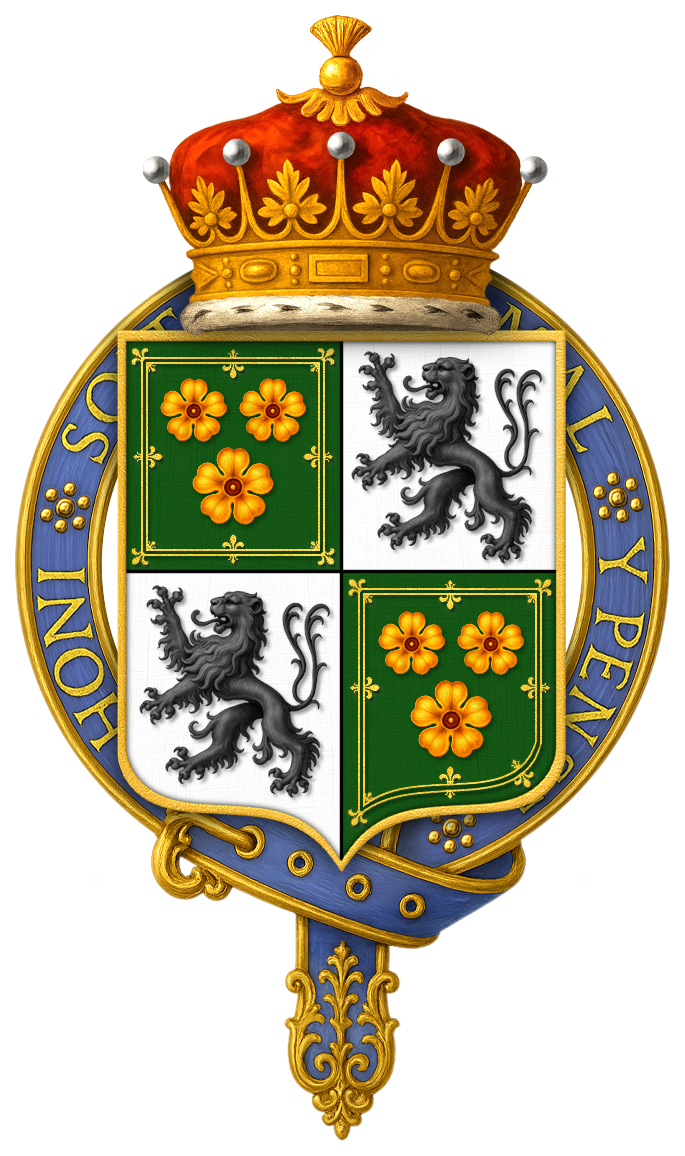 Shield of arms of Archibald Primrose, 5th Earl of Rosebery, KG, as displayed on his Order of the Garter stall plate in St. George's Chapel.